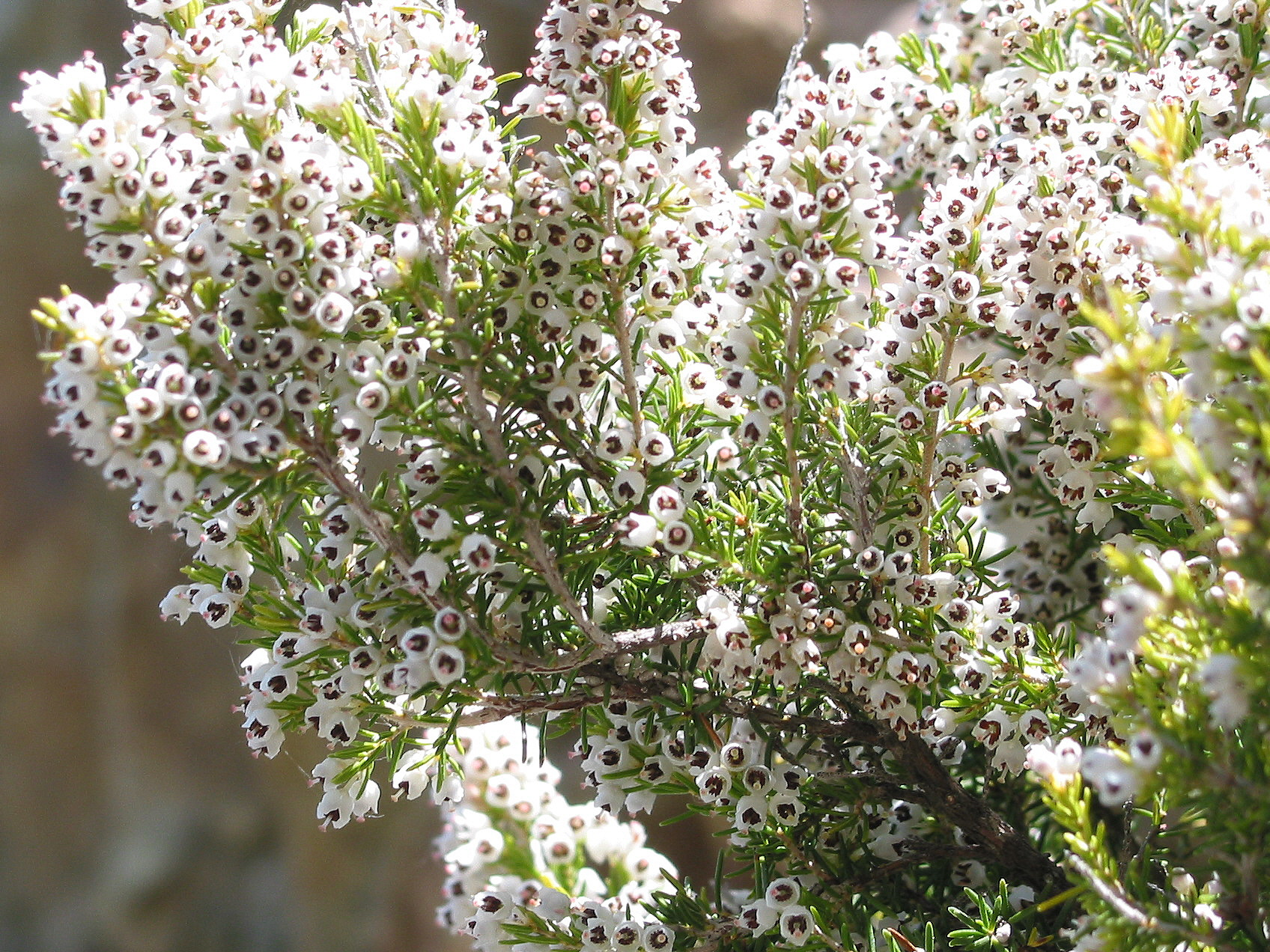 tree heath (Erica arborea) - Habitat: Gorges du Prunelli ( Corse-du-Sud) - France. Corsu: Scopa (arbustu) (Erica arborea) - Borga da Prunelli ( Corsica sutanna) - Francia. Walon: Grande bruyêre (Erica arborea) - Place: Gwadjes do Prunelli (Corse-do-Sud) - France.